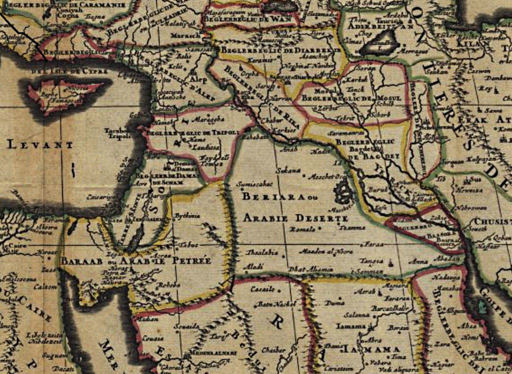 Map of OTTOMAN MASHRIQ in 1600 with all Beglerbeic